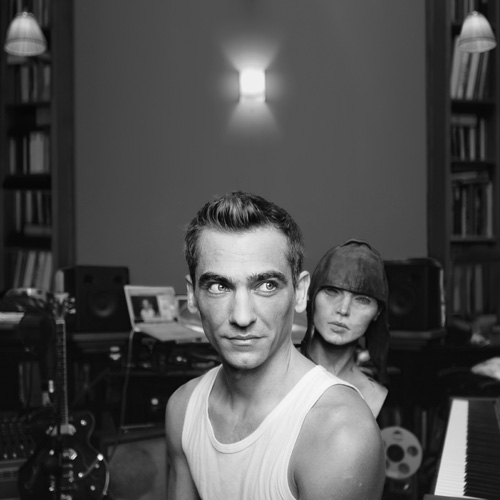 YONDERBOI at his own studio.